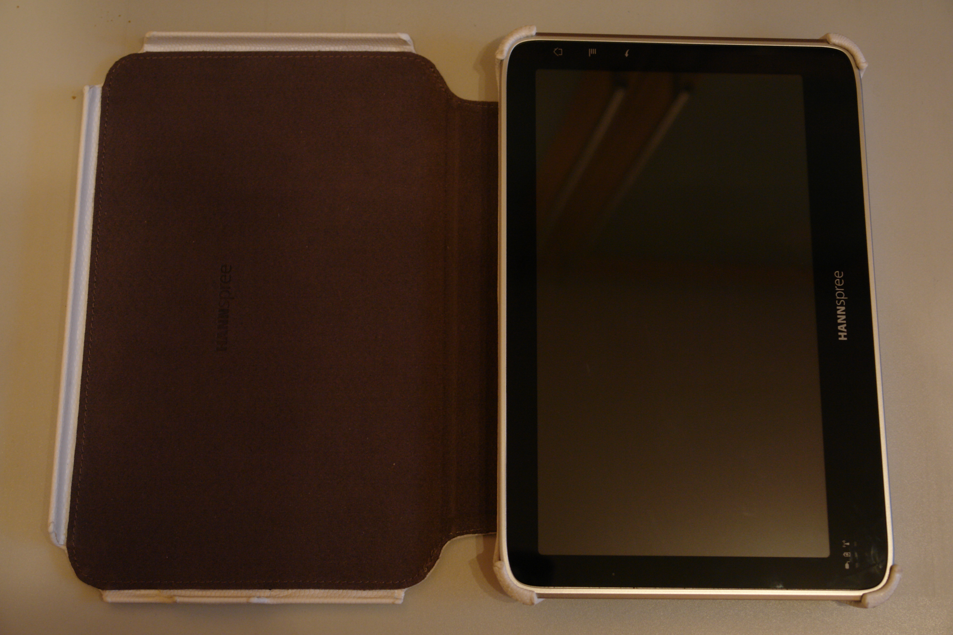 Hannsprees Hannspad Tablet